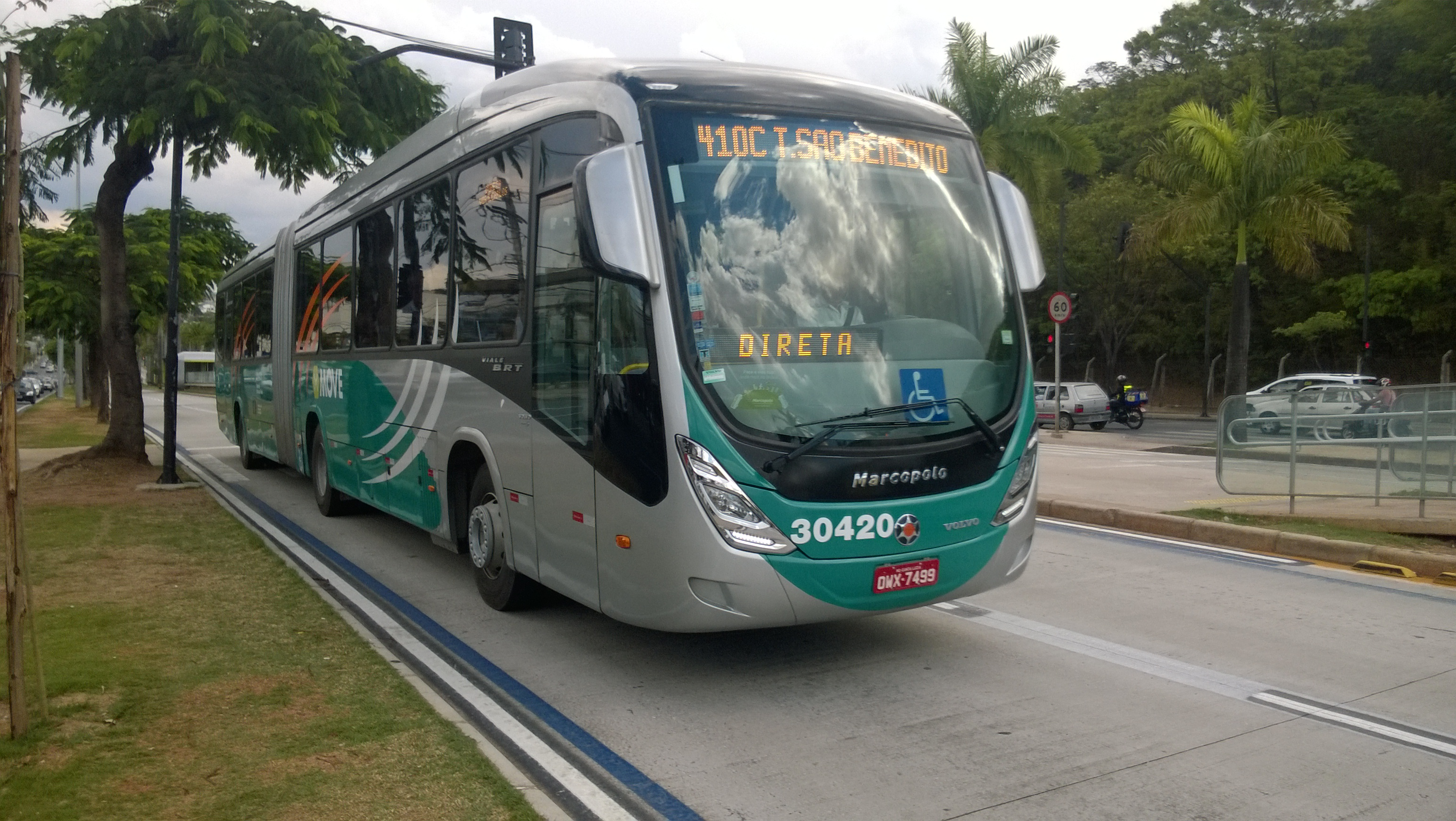 bus of the metropolitan MOVE in circulation in Belo Horizonte.